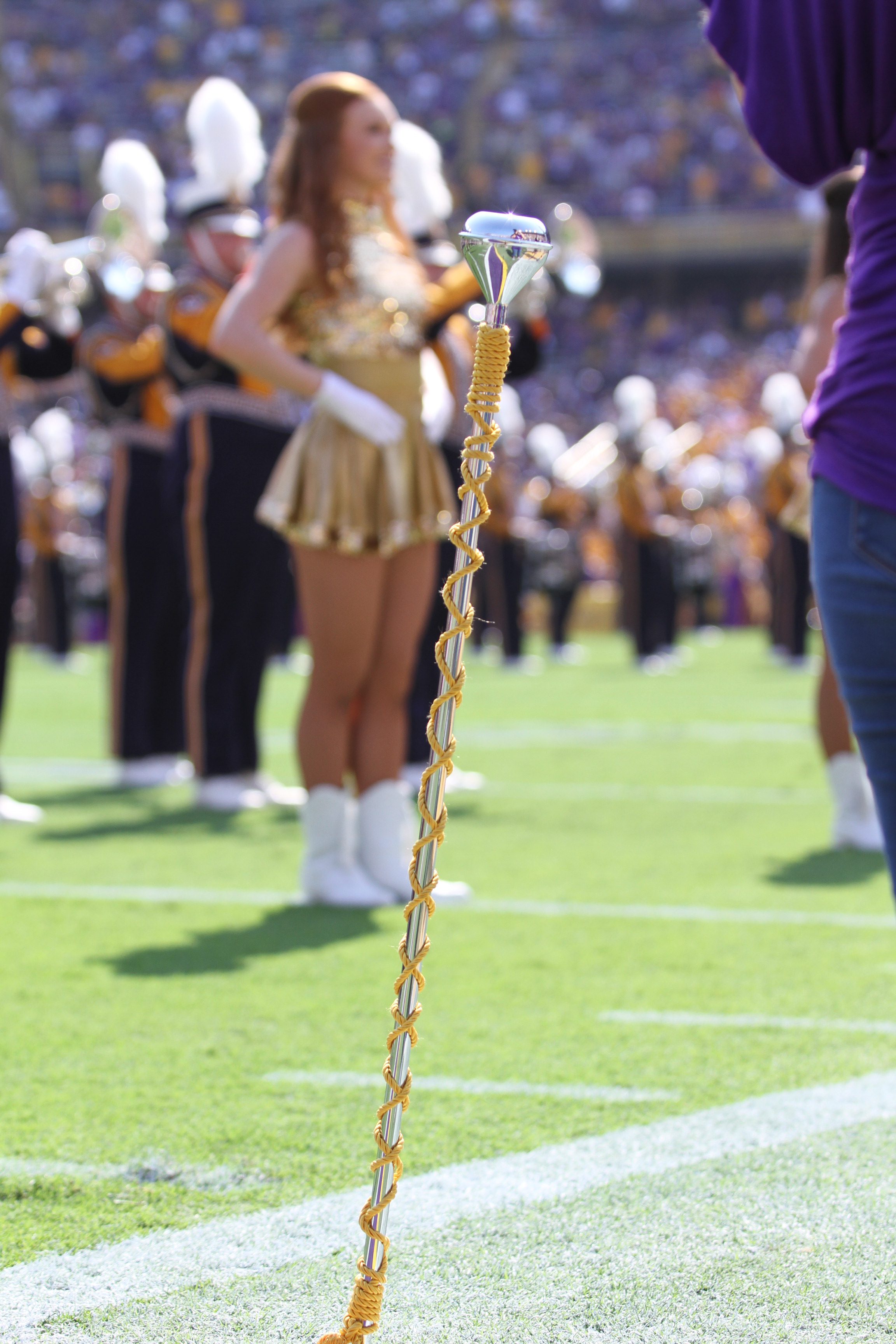 Golden Rod, Drum Major, Golden Band from Tiger Land, LSU Tigers Football vs Utah State Aggies, Tiger Stadium, October 5, 2019, Baton Rouge, Louisiana, Tammy Anthony Baker, Photographer @tabinla @tmabaker